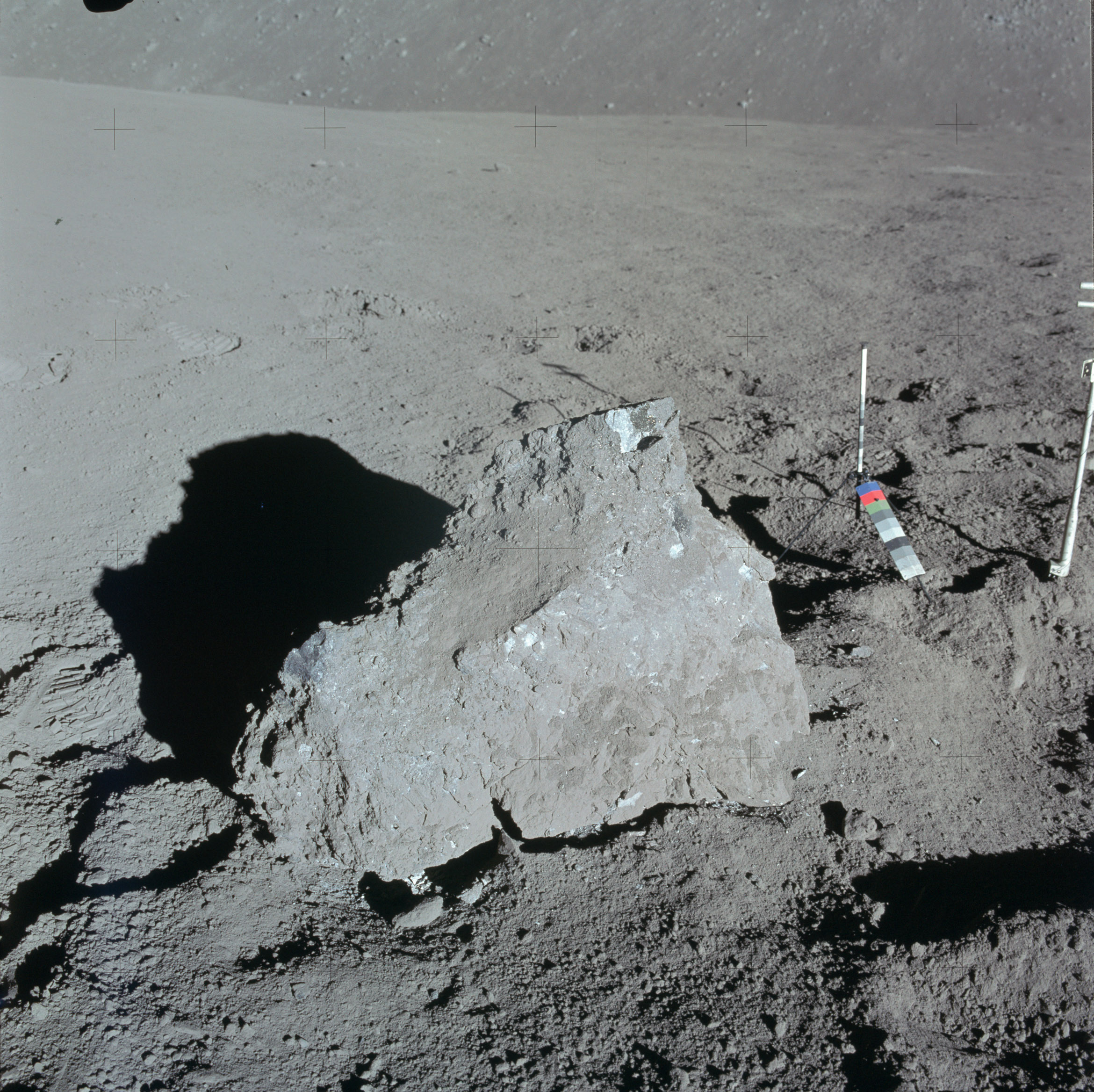 Boulder at Station 2 of Apollo 15 near St. George Crater. Breakout on upper right corner was created by taking sample 15205. The sample was taken at mission time 122:52:33 (h:m:s) [1].